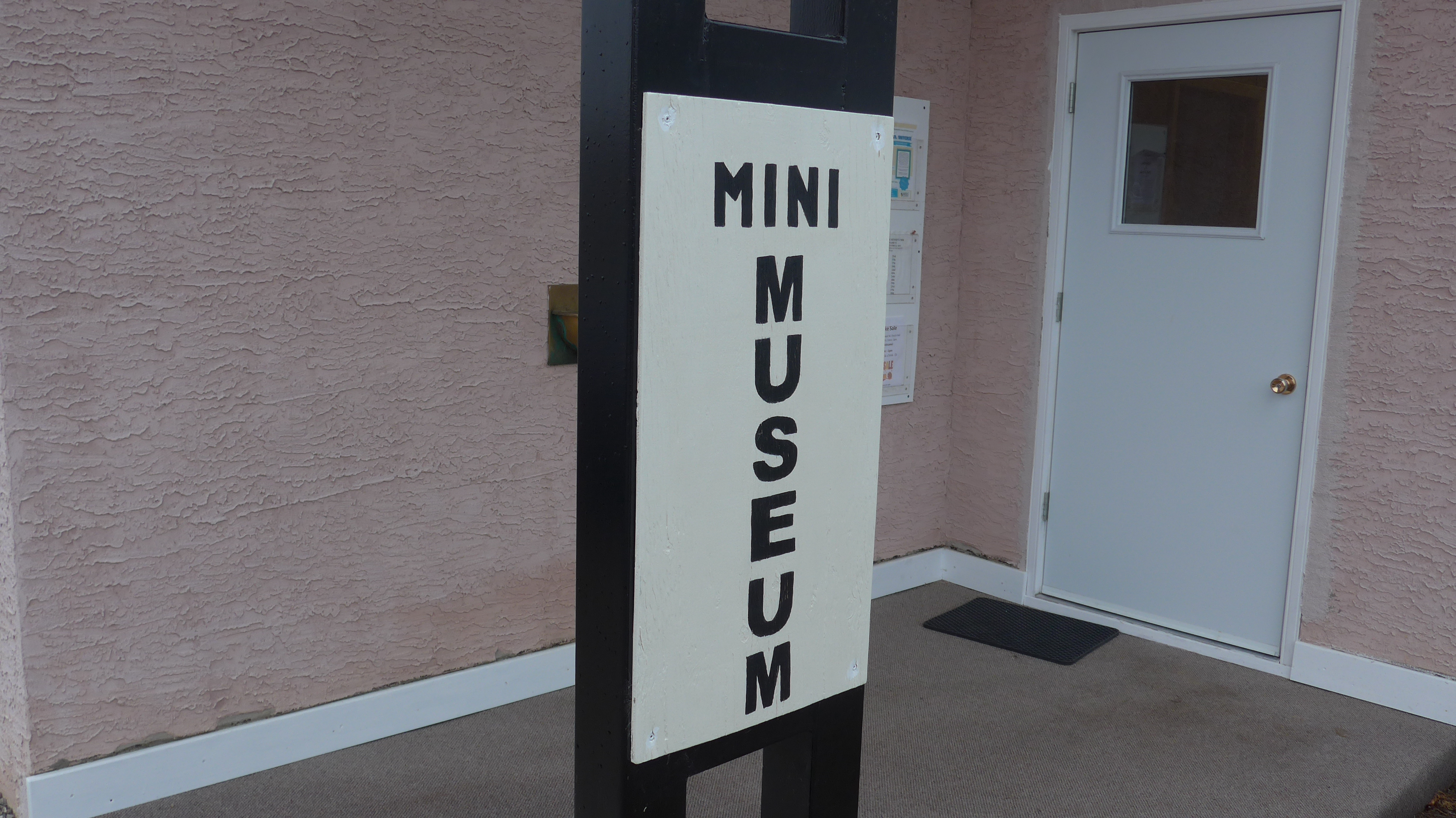 Mini Museum